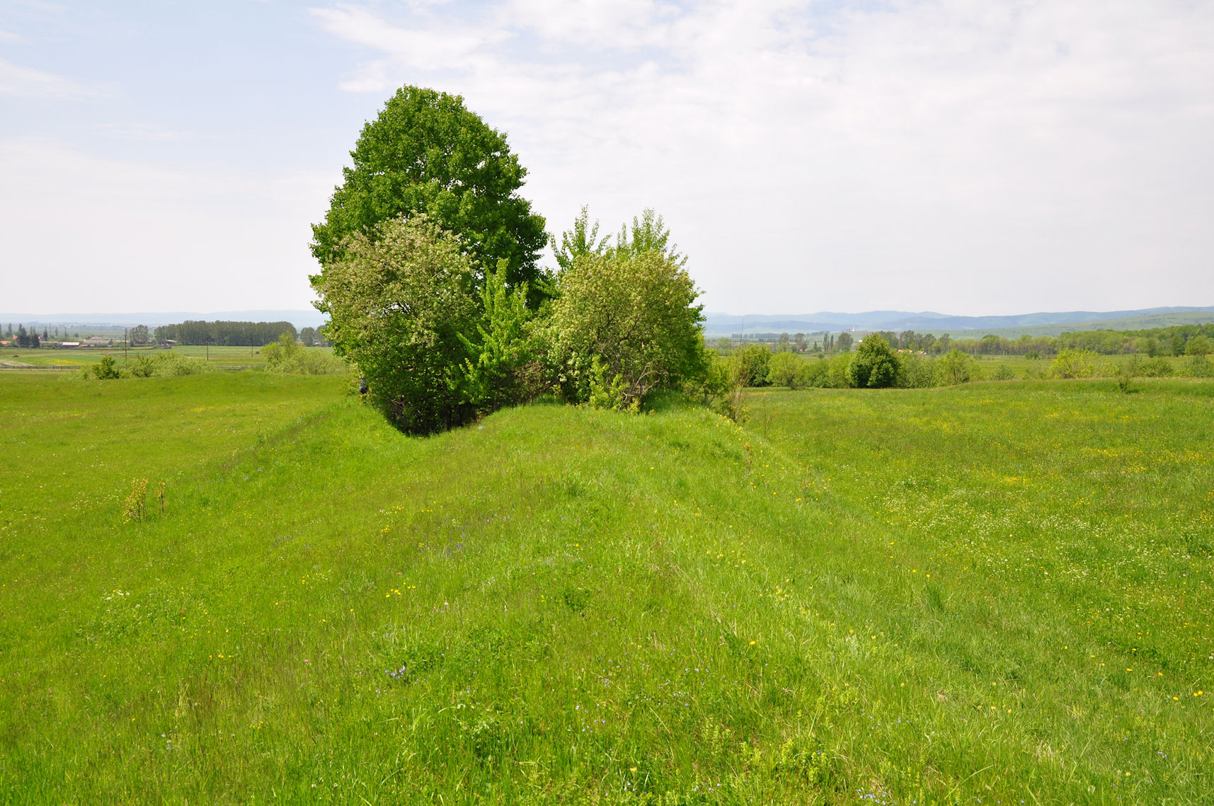 Castra Angustia